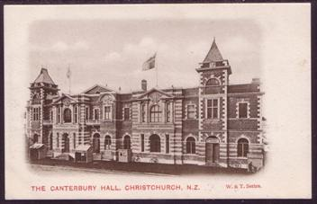 Canterbury Hall, built in 1900 and destroyed by fire in 1917. Historic postcard.